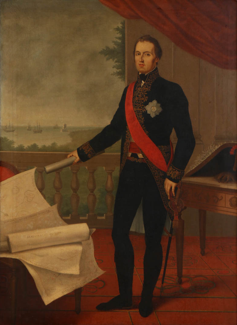 General Wellington, depicted in Lisbon, with the Tower of Belém as a backdrop. Beside him, descriptions of Peninsular War victories: Battle of Talavera, Restoration of Oporto, Restoration of Badajoz, Battle of Vimeiro.